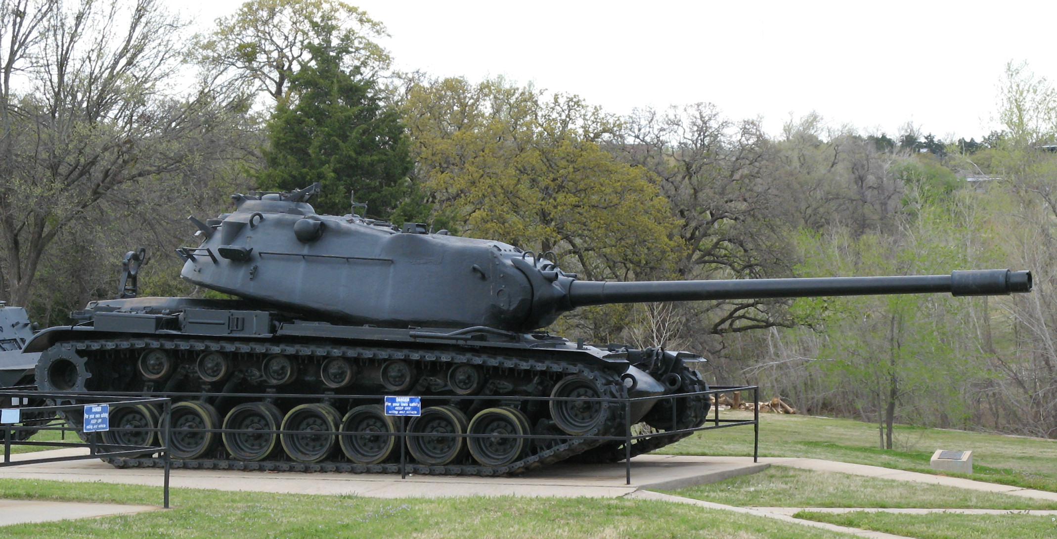 M103 heavy tank, 45th Infantry Division Museum, Oklahoma City, Oklahoma / 2008 (M103A2)